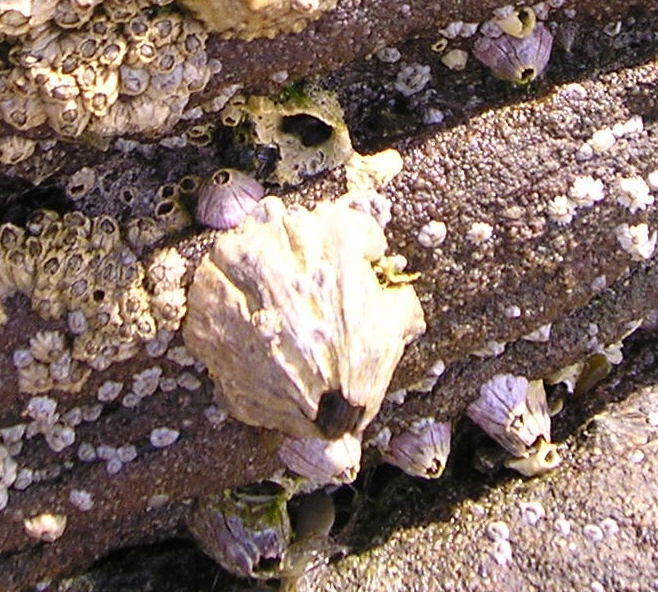 Balanus perforatus, mature and juvenile.